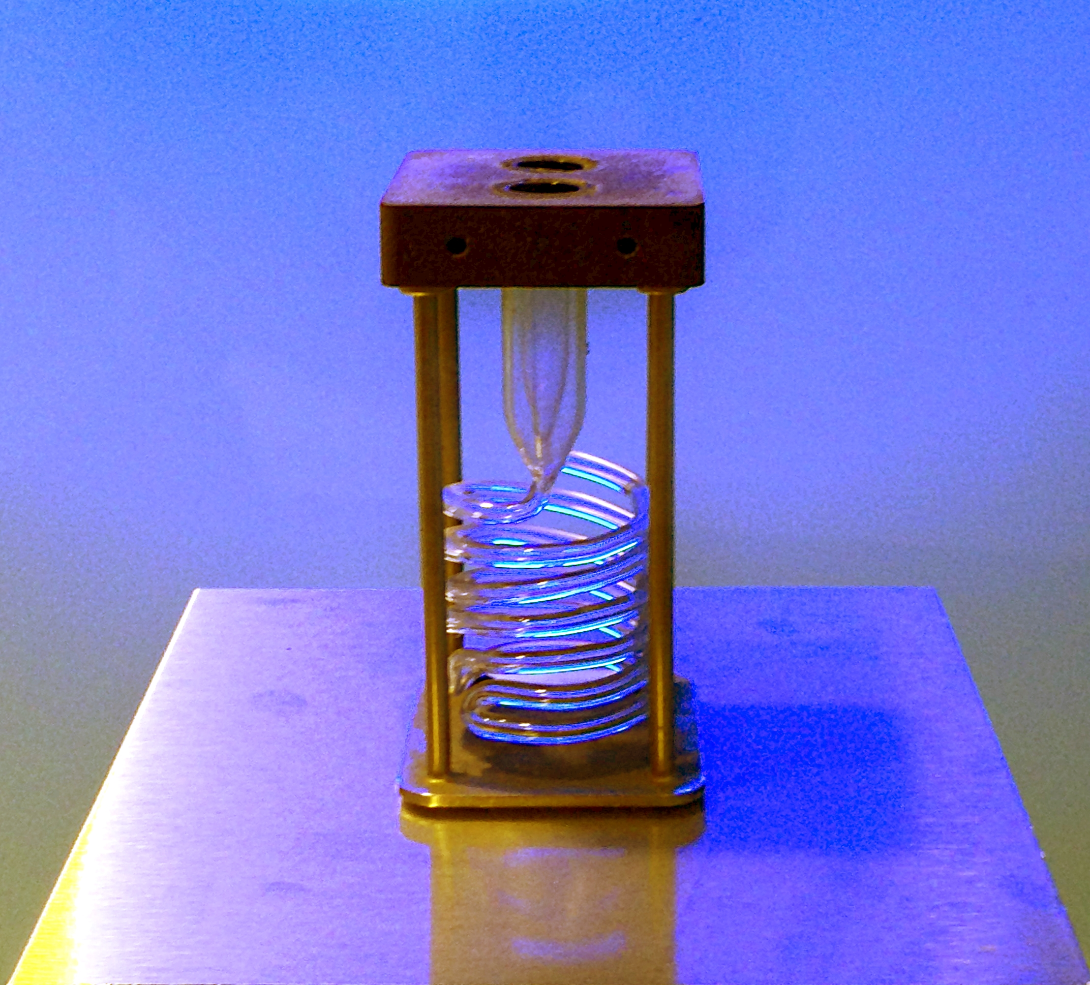 The mercury column resistance standard of Werner von Siemens, ca. 1860. This resistance is known as the Siemens mercury unit and is a little less than the modern ohm. (Munich 2015)